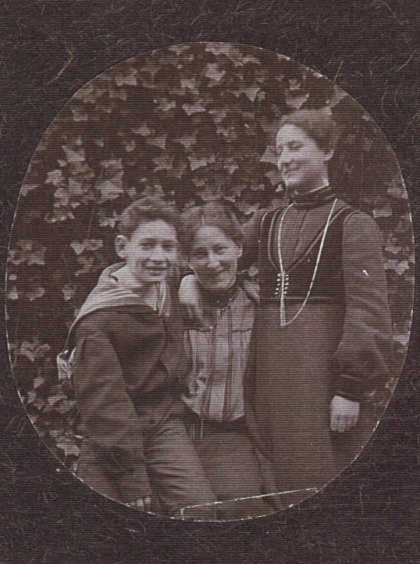 from the left: Franz Landé (1893–1942), Thekla Landé (1864–1932), Charlotte Landé (1890–1977). Picture taken about 1905 in the yard of their families' home in Elberfeld (today: borrough of Wuppertal), Rhineland, Germany